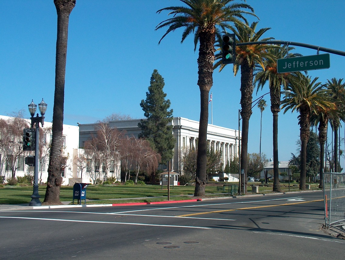 West Texas Street in Downtown (Fairfield, California).